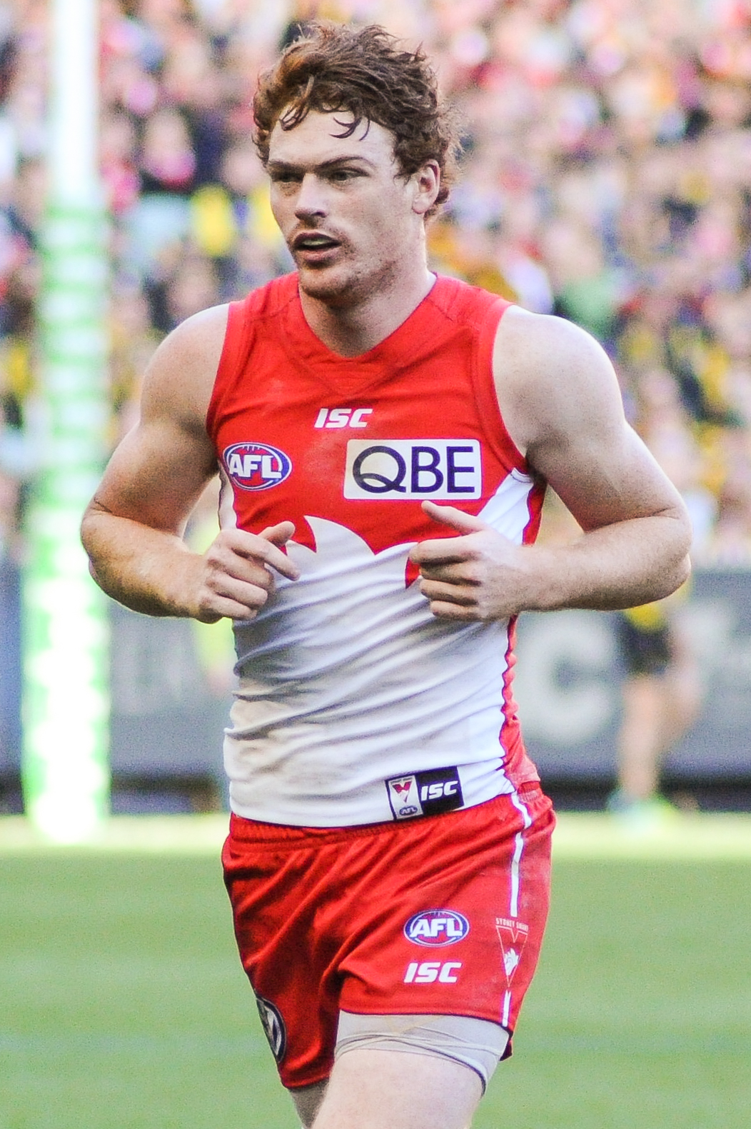 Gary Rohan during the AFL round thirteen match between Richmond and Sydney on 17 June 2017 at the Melbourne Cricket Ground in Melbourne, Victoria.